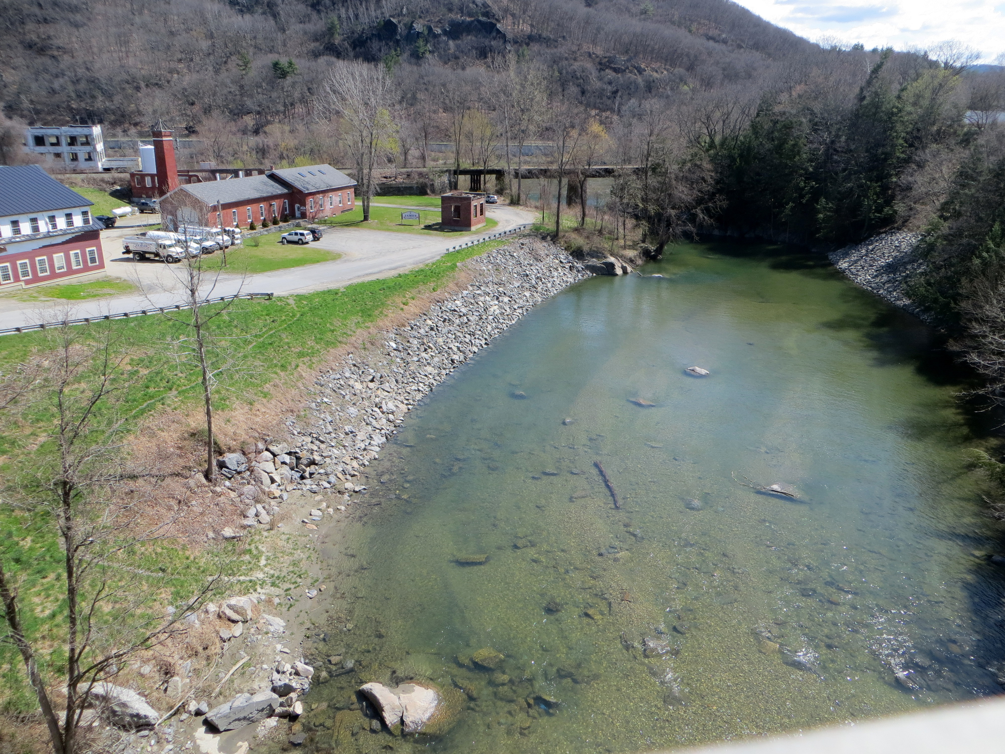 Lower end of the Saxtons River, where it flows into the Connecticut River just south of Bellows Falls, VT in Westminster, VT. As seen from the US 5 bridge looking downstream.